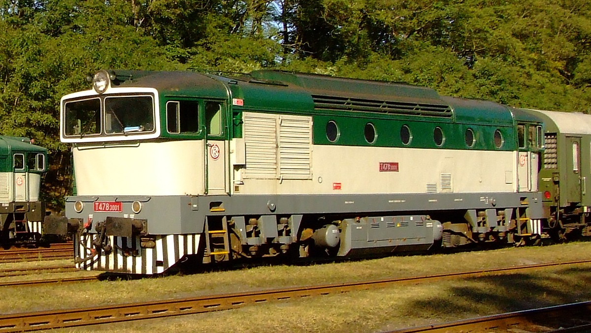 Diesel Locomotive number T 478.3001 of the Czechoslovak State Railways (CSD) at the Czech Railway Museum at Lužná (Rakovník District).